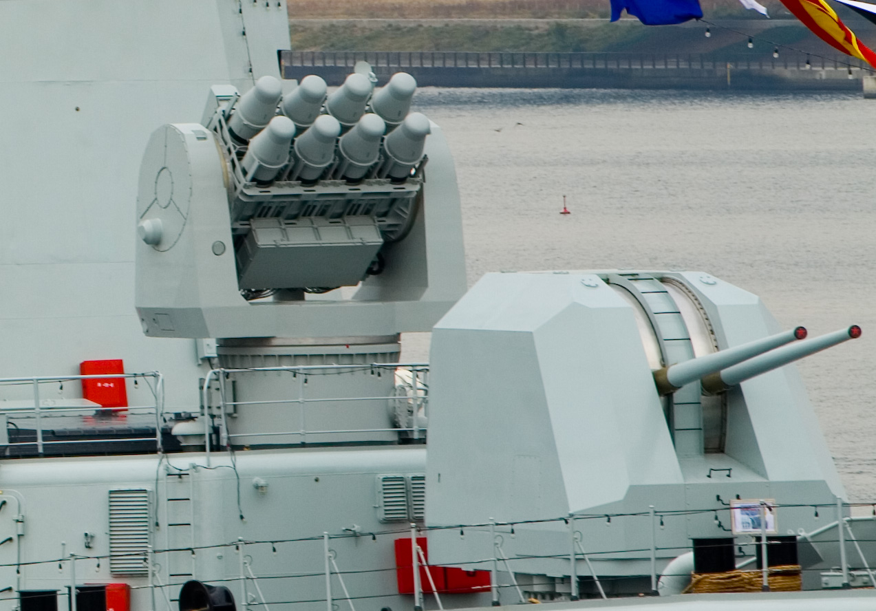 A Chinese HQ-7 eight unit SAM launcher and a Type 79A twin barrel 100 mm turret on the Chinese Type 051B Luhai-class guided missile destroyer Shenzhen.